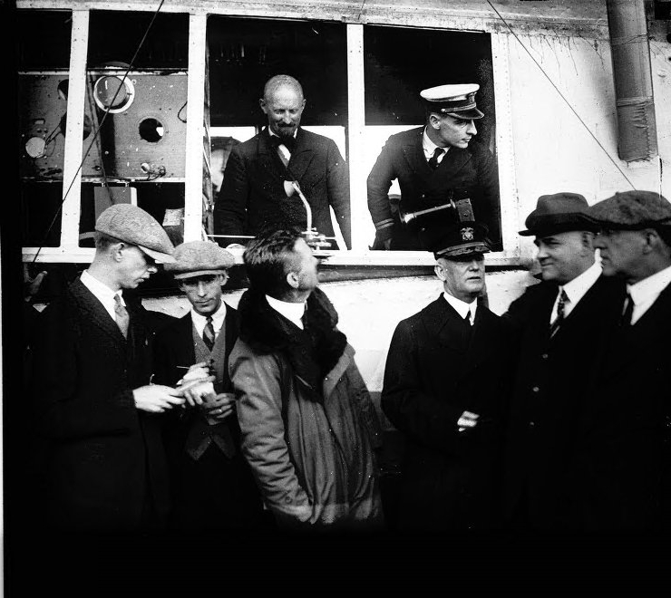 ZR-1 Control Car and crew, after the steep-angle landing at Saint Louis Flying Field on October 2nd, 1923. Left-side view Control Car of ZR-1, during flight test outing, prior to re-name USS Shenandoah; airship. This image shows perhaps the only available photo of Anton Heinen: German test pilot and consultant in the construction of the ZR1 (bald headed man). Standing outside Control Car are Commander Frank McCrary (in flight suit), Admiral Moffett, Mayor Kiel. From newspaper story: "...Ralph D. Weyerbacher (USN), designer and builder of the ZR-1 remained in the cabin with Capt. Heinen, after the commander had stepped out and had received an official welcome from the city and the air board, through Mayor Kiel, Senator Spencer and Chairman B. G. Bush and other members of the board….”